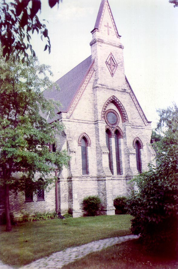 St. John's Church on the grounds of the old Racine College, now the DeKoven Foundation.